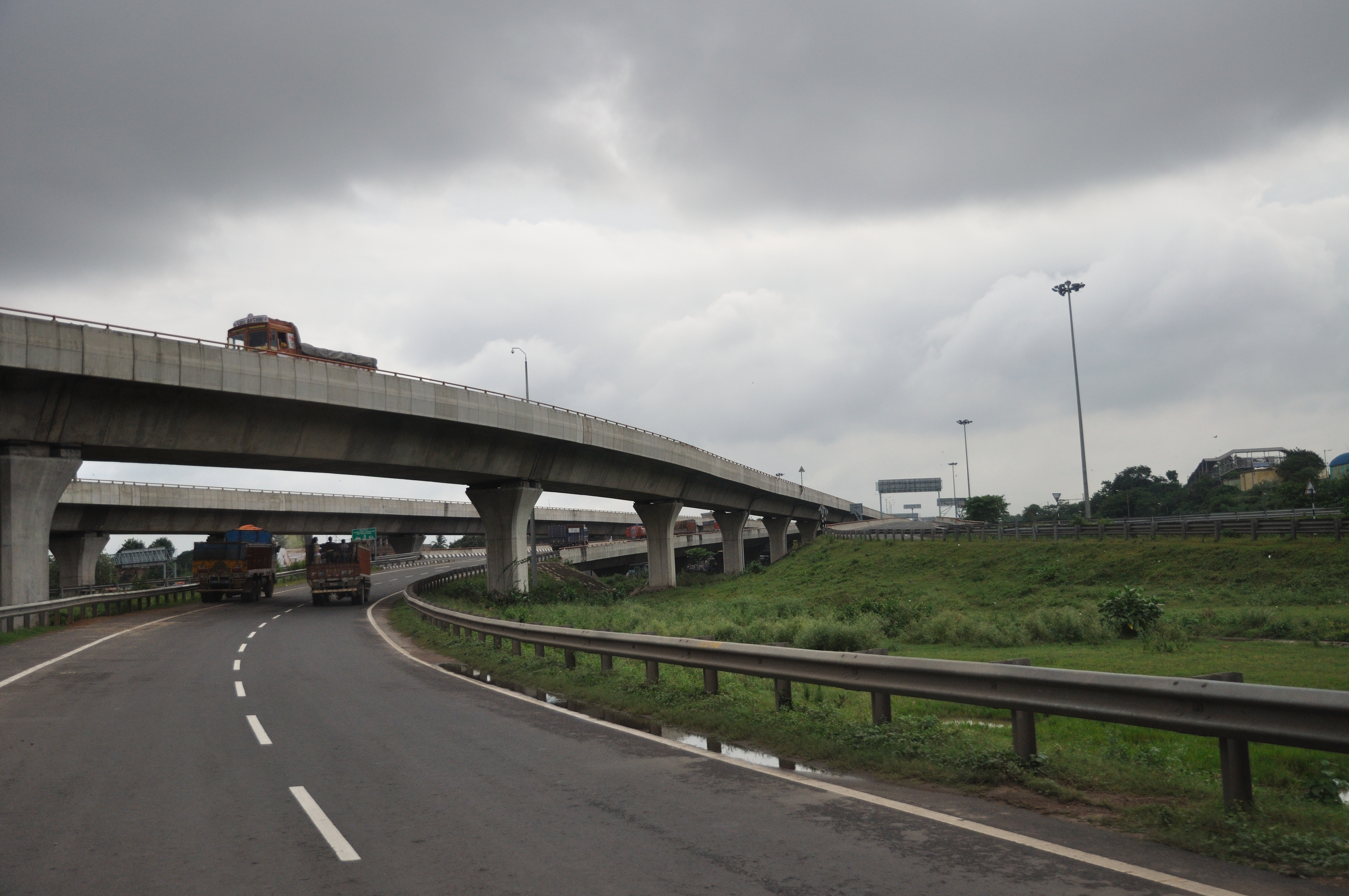 Belghoria Expressway is arterial road linking Dakshineswar and Jessore road near Netaji Subhash Chandra Bose International Airport or Dum Dum Airport. This media file is uploaded with India loves Wikipedia event.